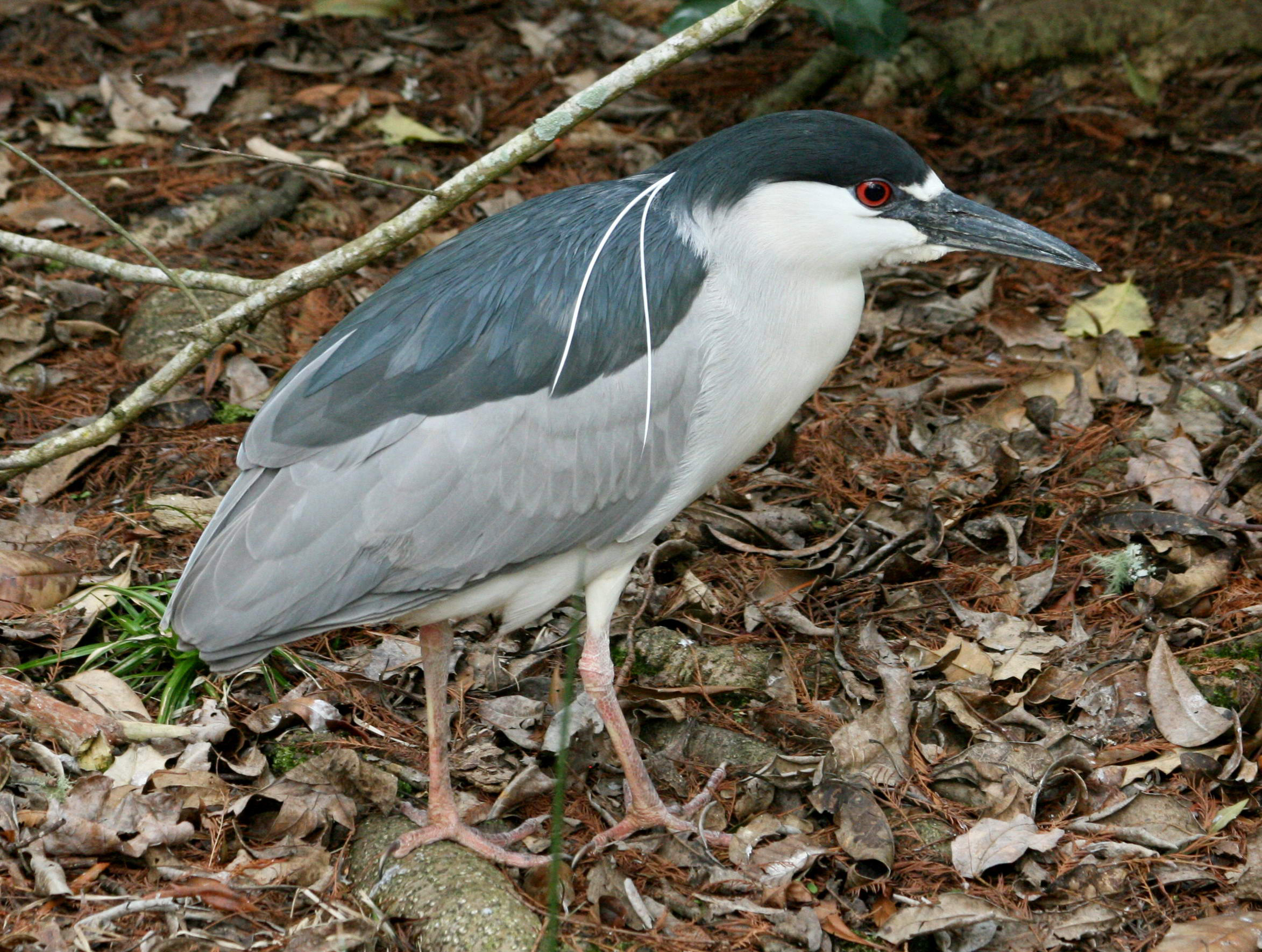 Black-crowned Night-Heron_(Nycticorax nycticorax) at Brookfield Gardens, So. Carolina